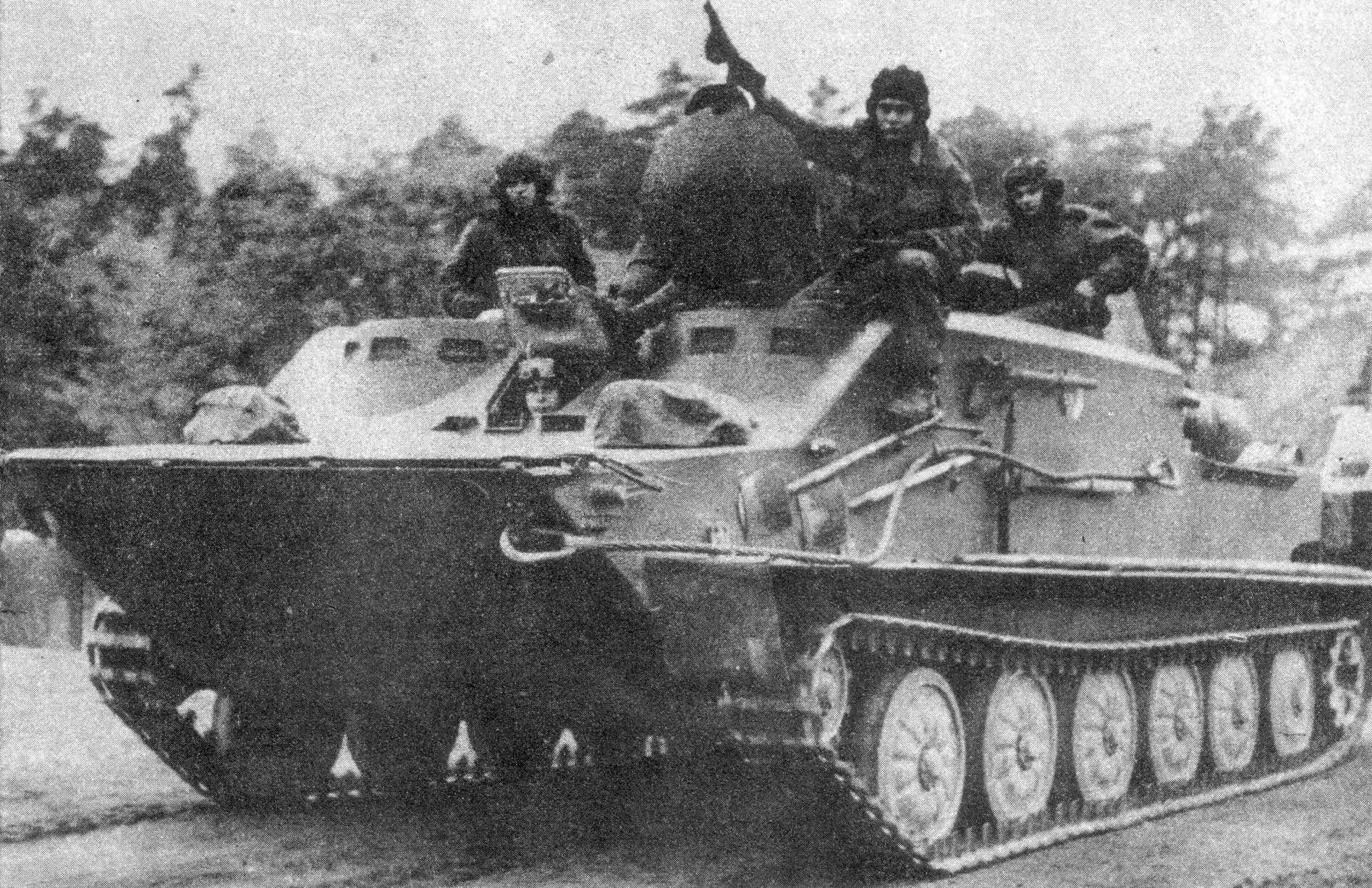 SPW-50PU in service with the NVA (Army of East Germany).